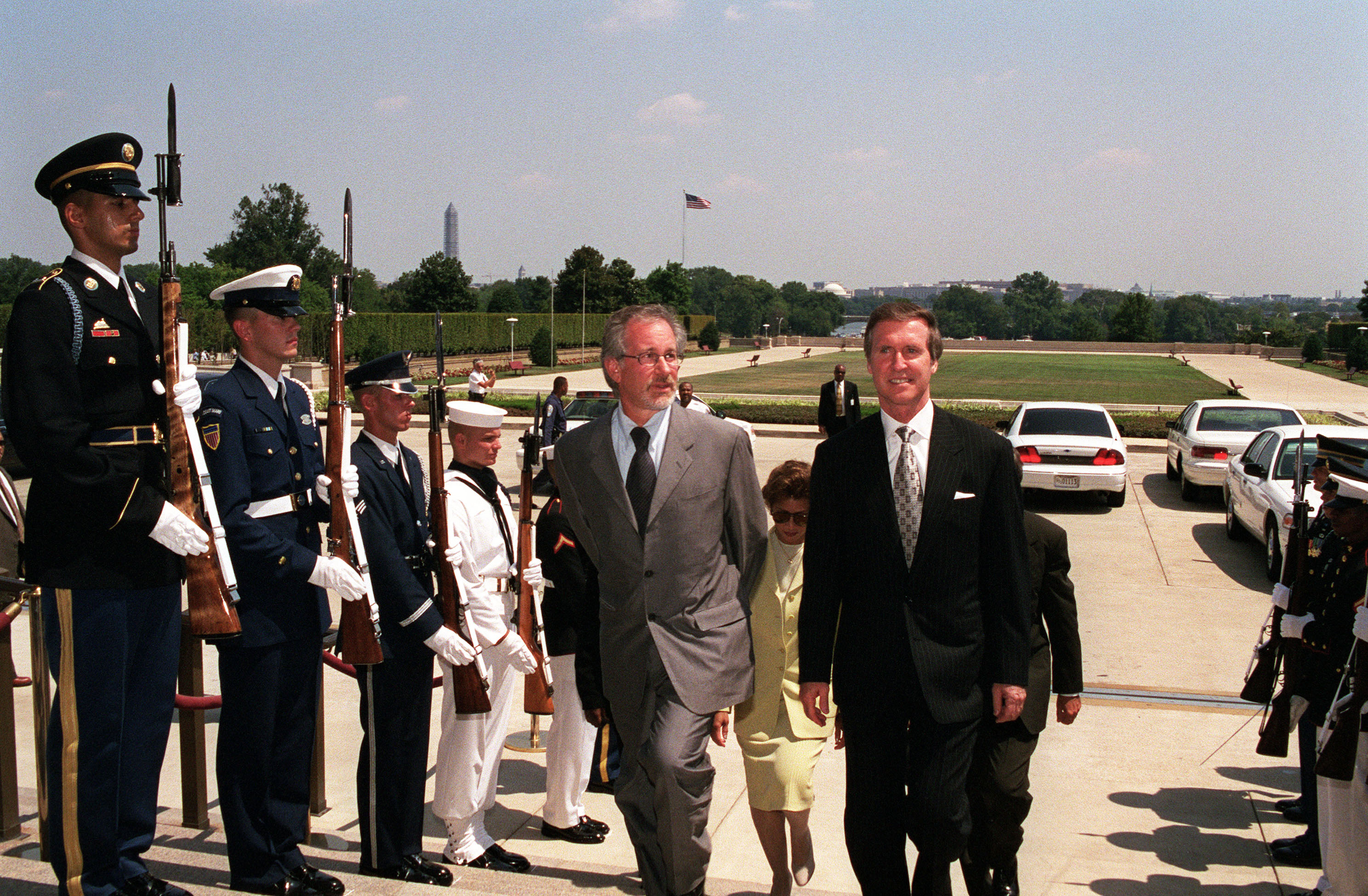 Secretary of Defense William S. Cohen, (right) escorts Steven Spielberg (left) through a military honor cordon into the Pentagon. Cohen will later present the Department of Defense Medal for Distinguished Public Service to Spielberg.